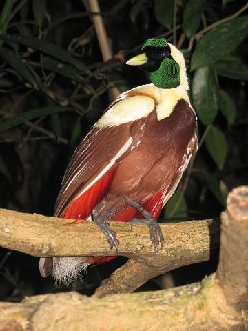 Description: Red Bird of Paradise - Source: own work - Location: Central Park Zoo, New York - Author: self, User:Stavenn